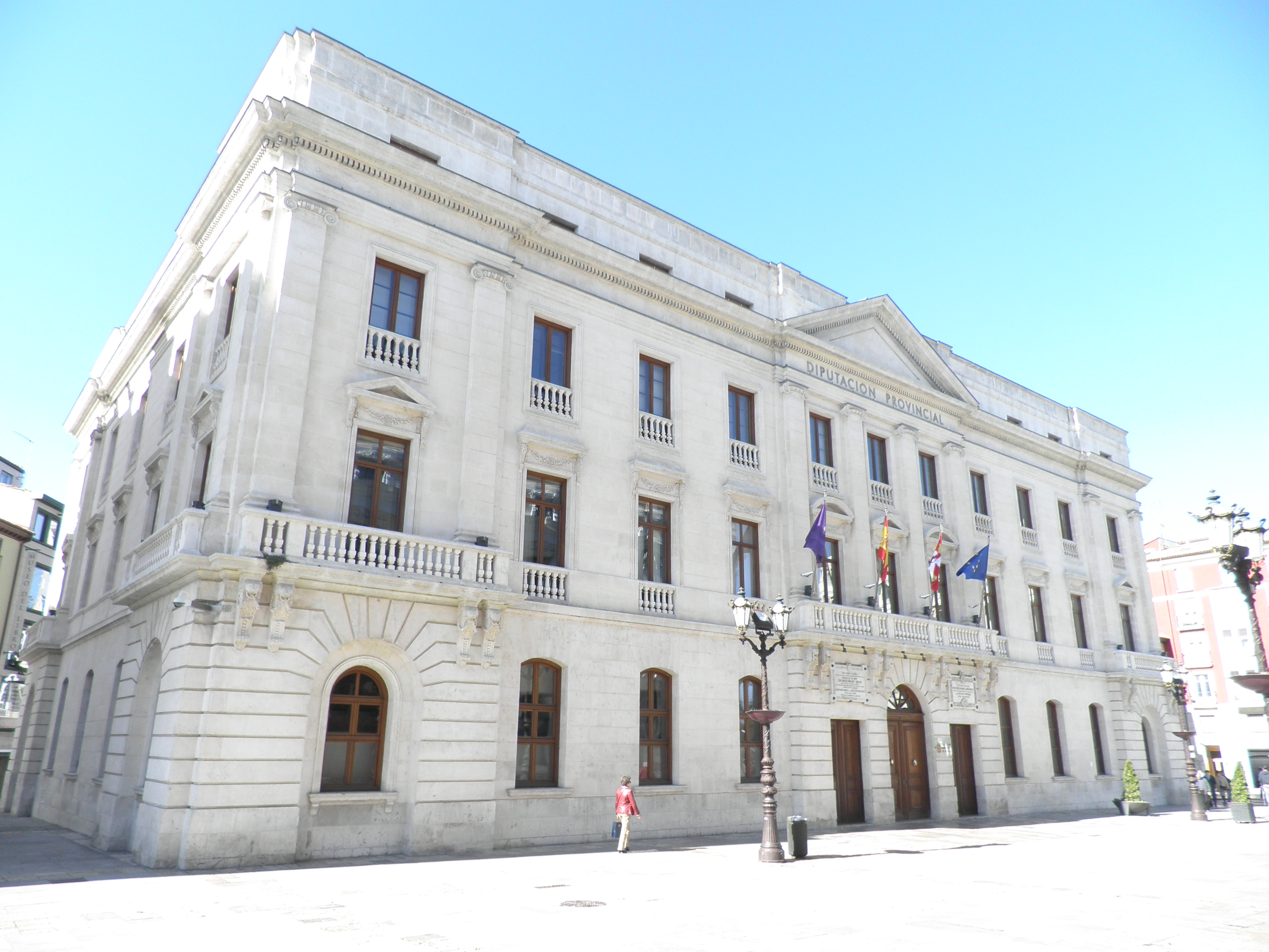 Provincial Palace, the seat of the provincial parliament or Deputation of Burgos